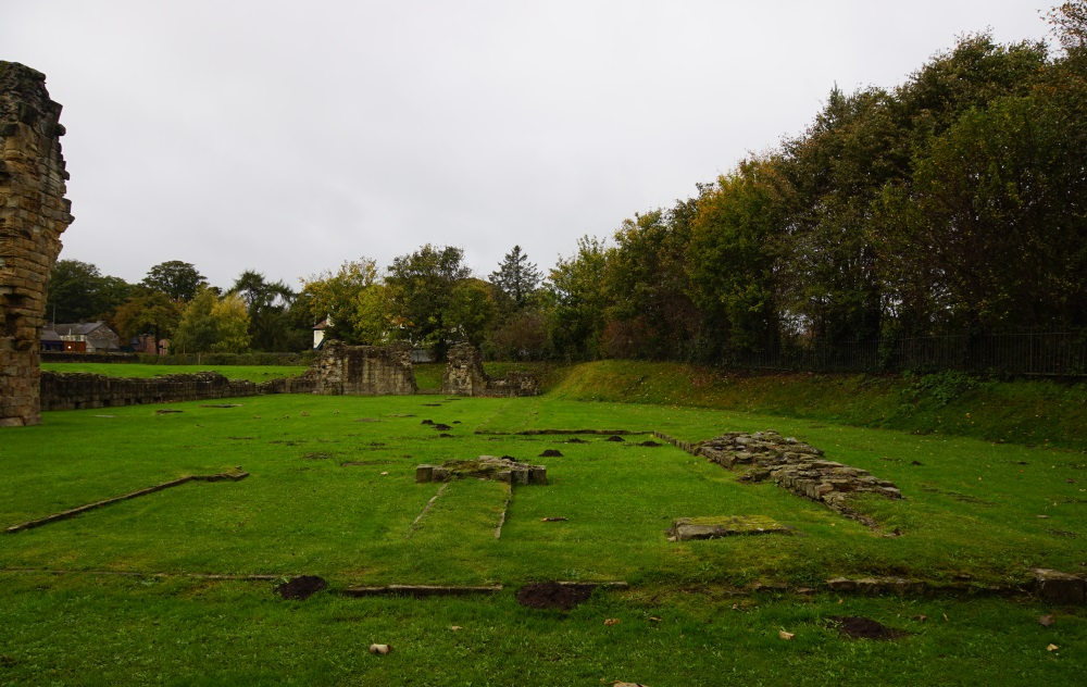 Basingwerk Abbey, Wales. Church seen from the east with two transept chapels.